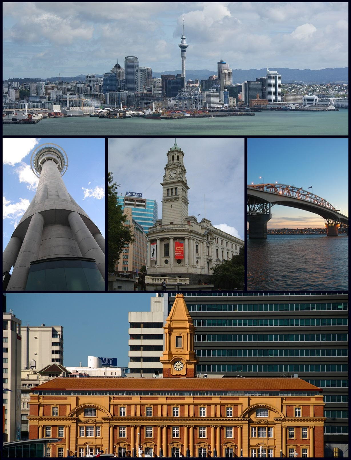 Collage of Auckland photographs.